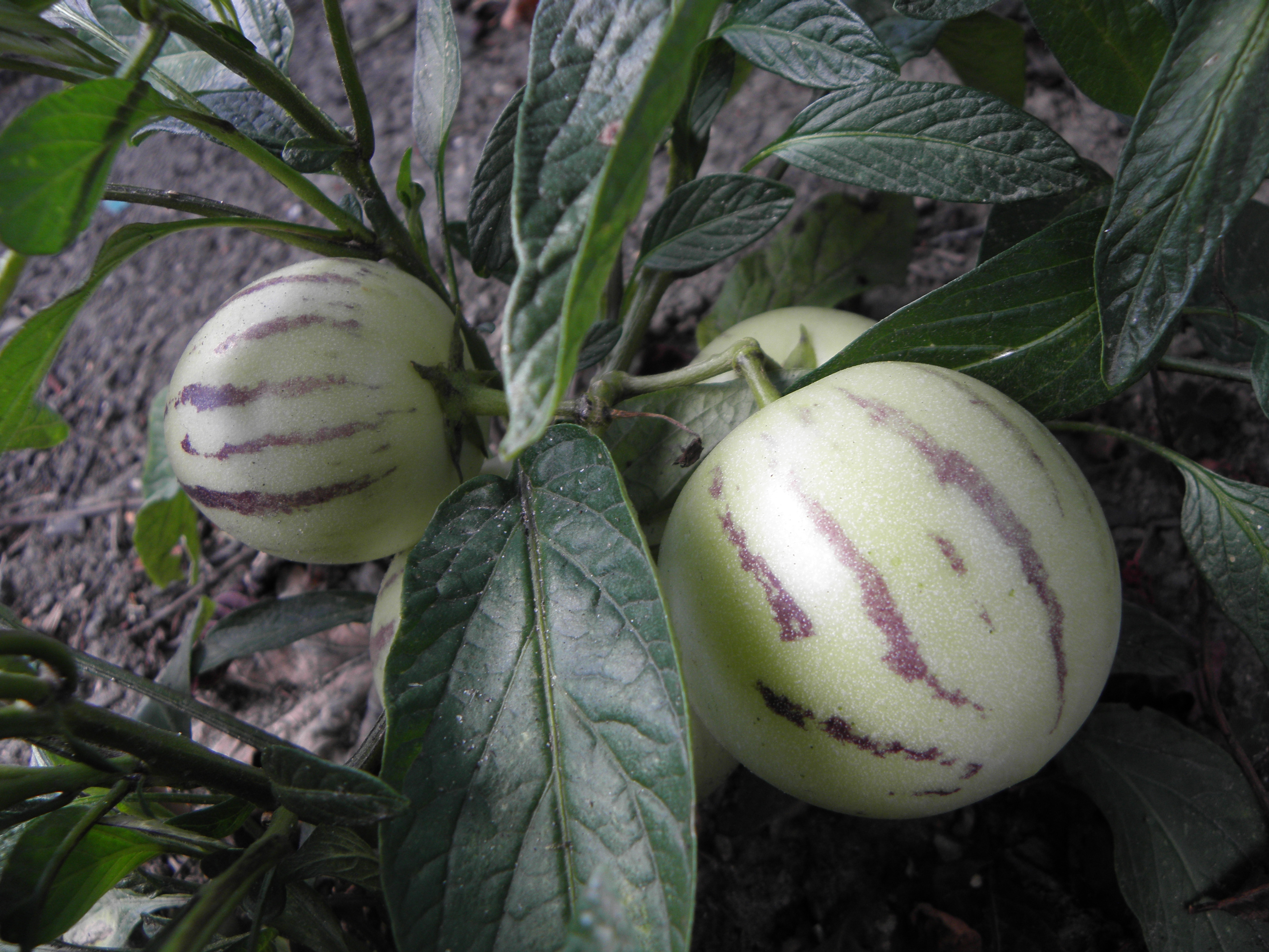 sweet pepino